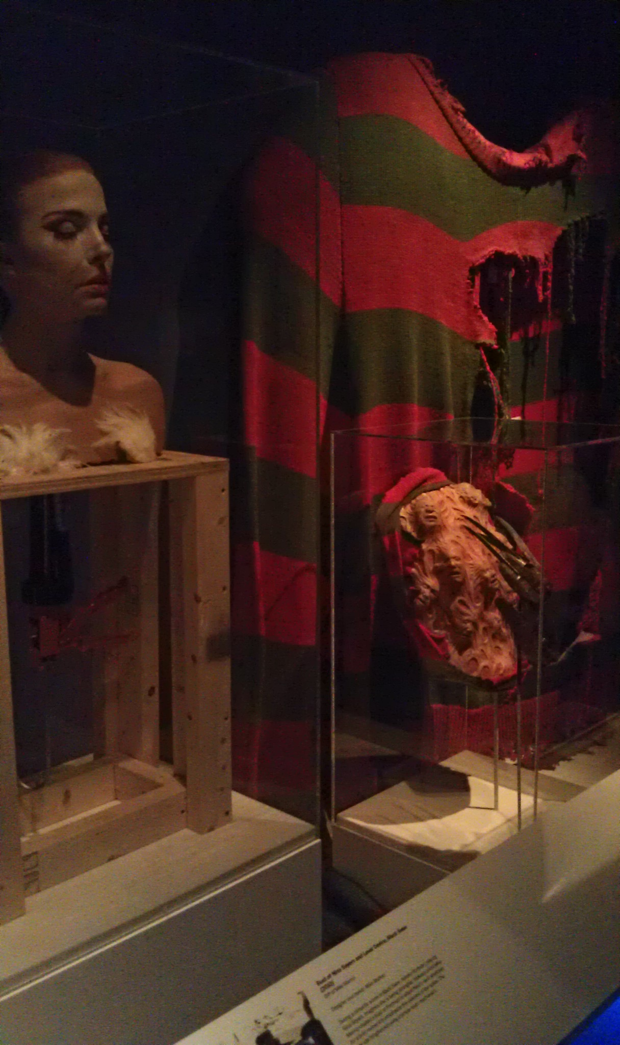 displayed at the Museum of the Moving Image, Astoria, Queens, New York City.